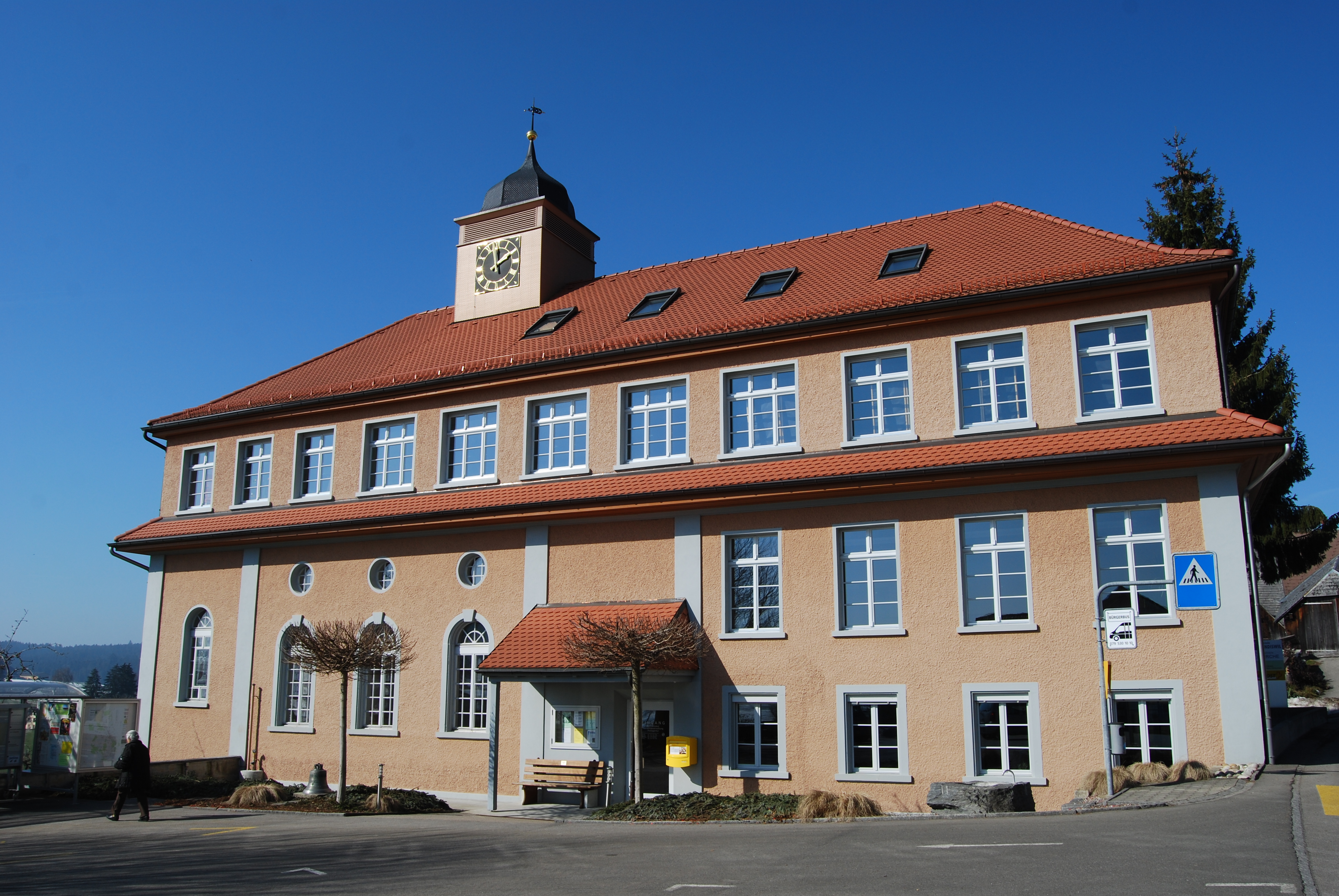 Protestant church, municipality and Post Office of Gondiswil, canton of Bern, Switzerland